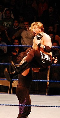 The Undertaker performs a chokeslam on Zack Ryder.